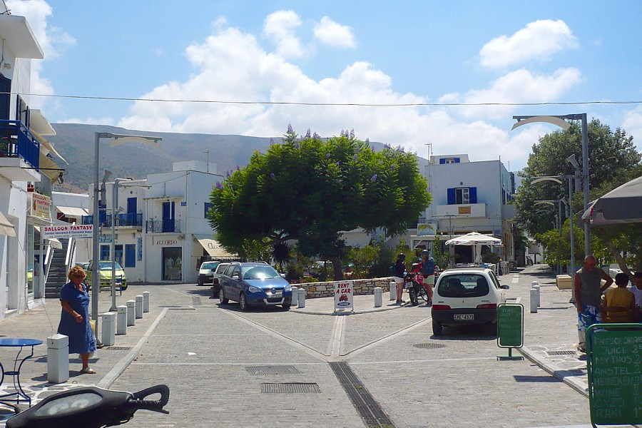 Paroikia streets